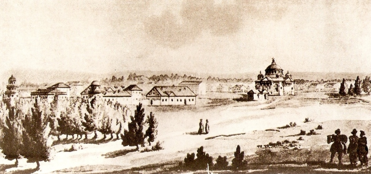 View of town Sophia and St. Sophia Cathedral